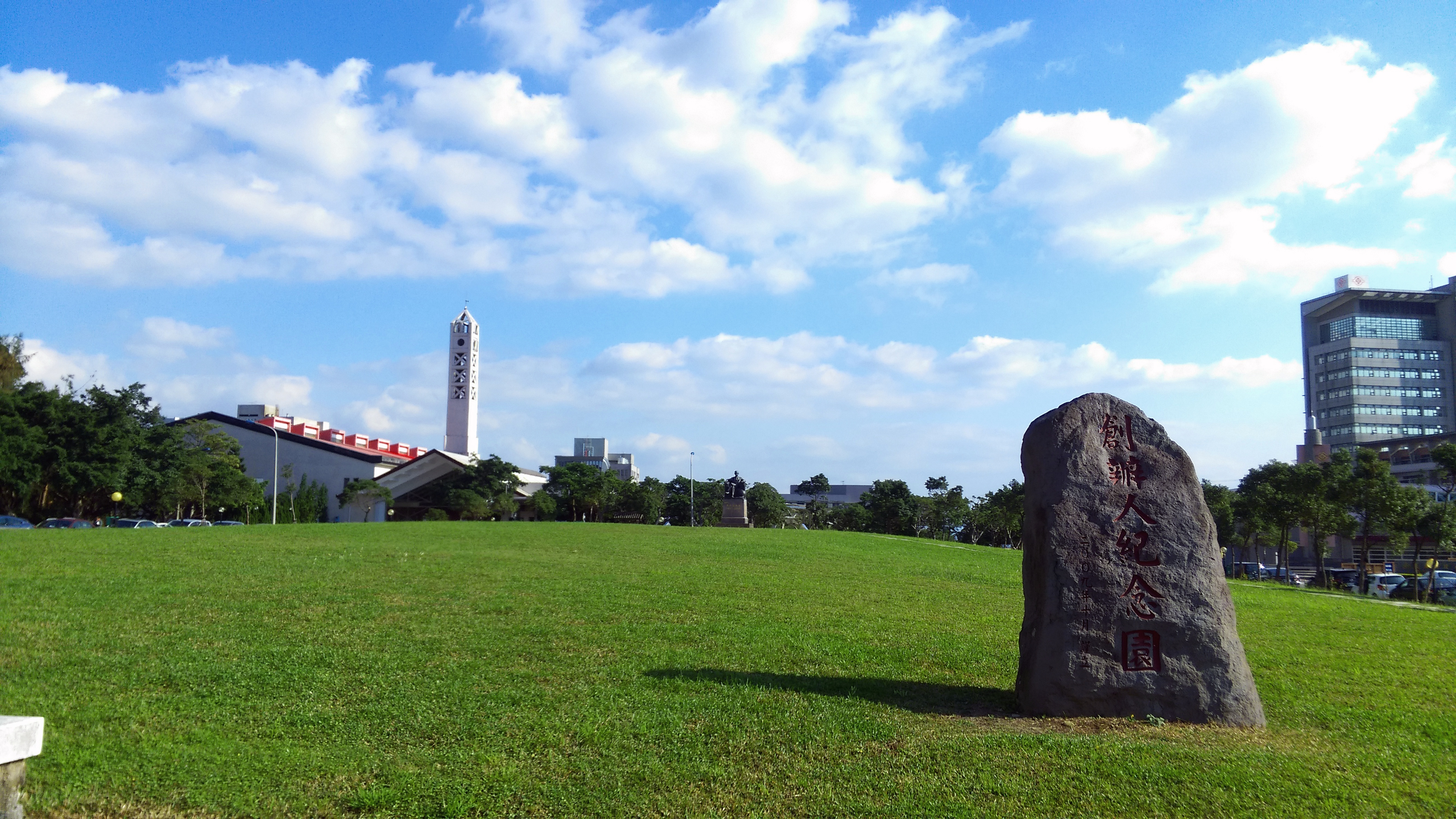 memorial park of the establisher of Chang Gung University